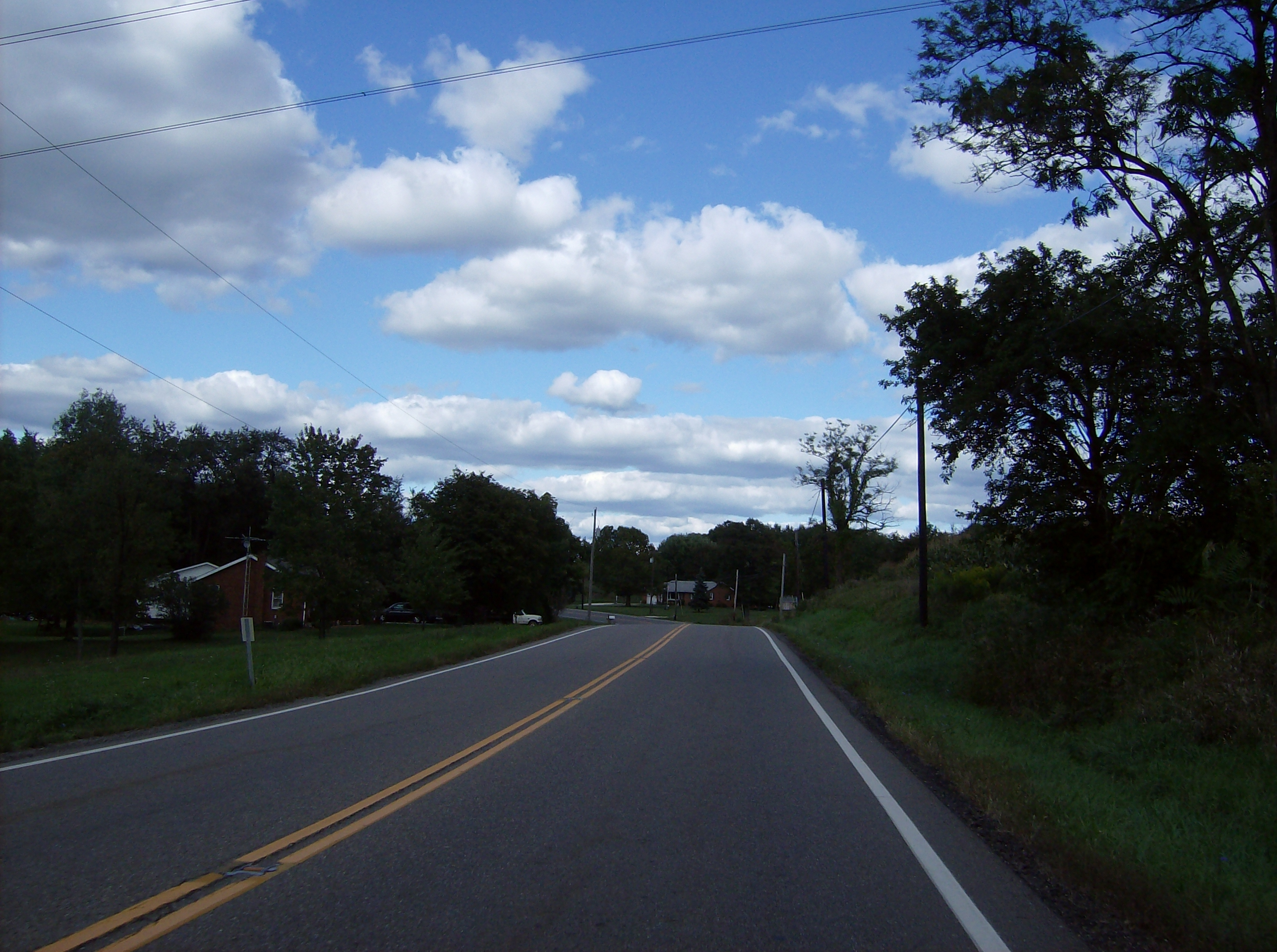 Along northbound State Route 9 in northern Center Township, Carroll County, Ohio, United States. Picture taken just north of the village of Carrollton, the county seat of Carroll County.